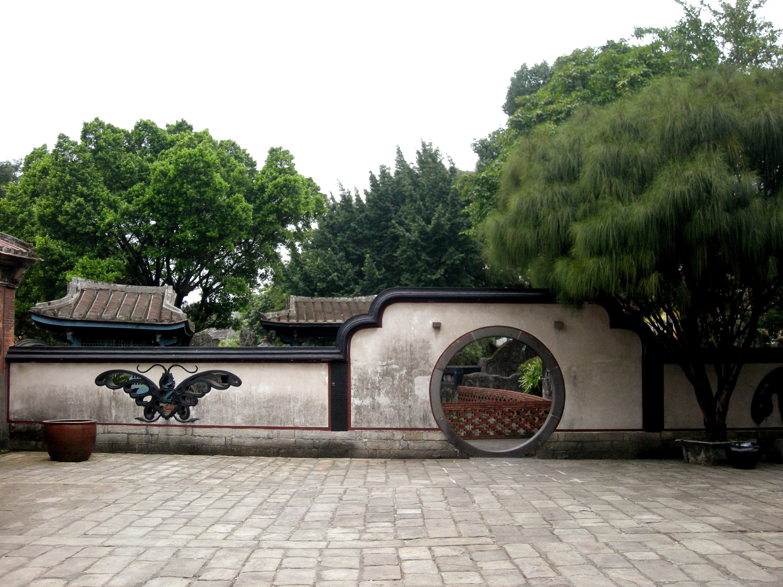 Court of Ding-Jing Hall at Lin Garden, New Taipei City, Taiwan.